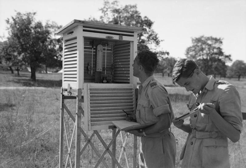 Royal Air Force- Italy, the Balkans and South-east Europe, 1942-1945. The meteorological officer at the Advanced Air Headquarters of the Desert Air Force at Lucera, Italy, reads the temperatures from a Stevenson screen while an airman calculates the humidity with a slide rule.